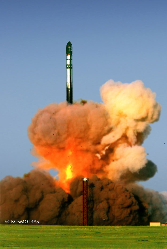 Rocket launch from Yasny spaceport, Russia